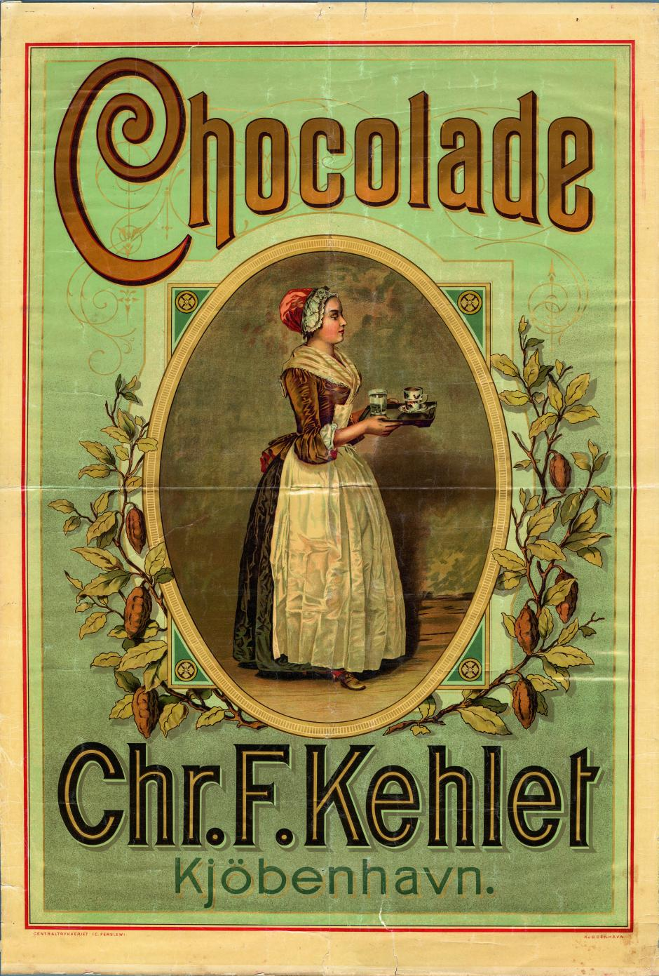 Poster from the chokolate manufacturer Chr. F. Kehlet in Denmark